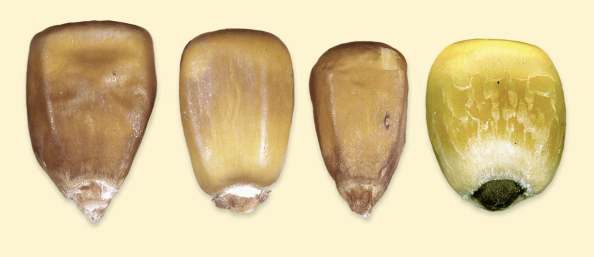 Kernel A: Kernels which have a discolored, wrinkled, and blistered appearance. Kernel B: Kernels which are puffed and/or swollen and slightly discolored and often have damaged germs. Kernel C: Kernels whose seed coats are peeling off and are slightly discolored. Kernel D: Kernels whose seed coat is peeling off (or has already peeled off), having a crazed or checked appearance. [1]